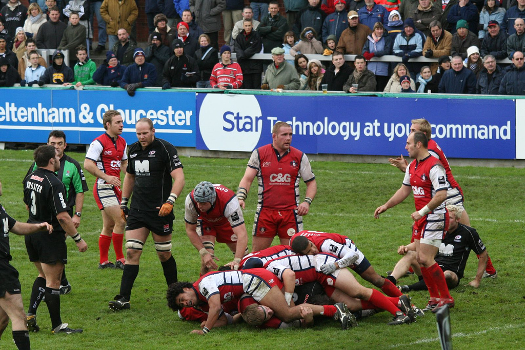 Phil Vickery. Gloucester v Saracens 26 november 2005.